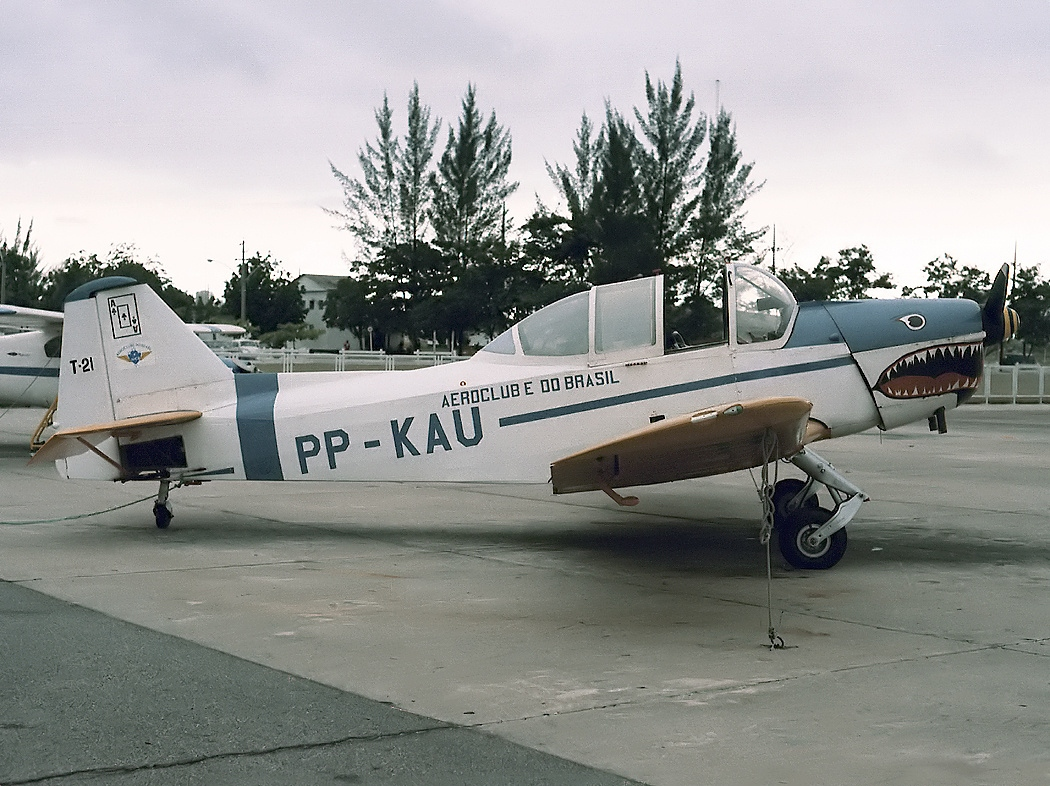 Built in Brazil by Fokker Industria Aeronautica under licence, this one is ex Brazilian Air Force T-21 0710.